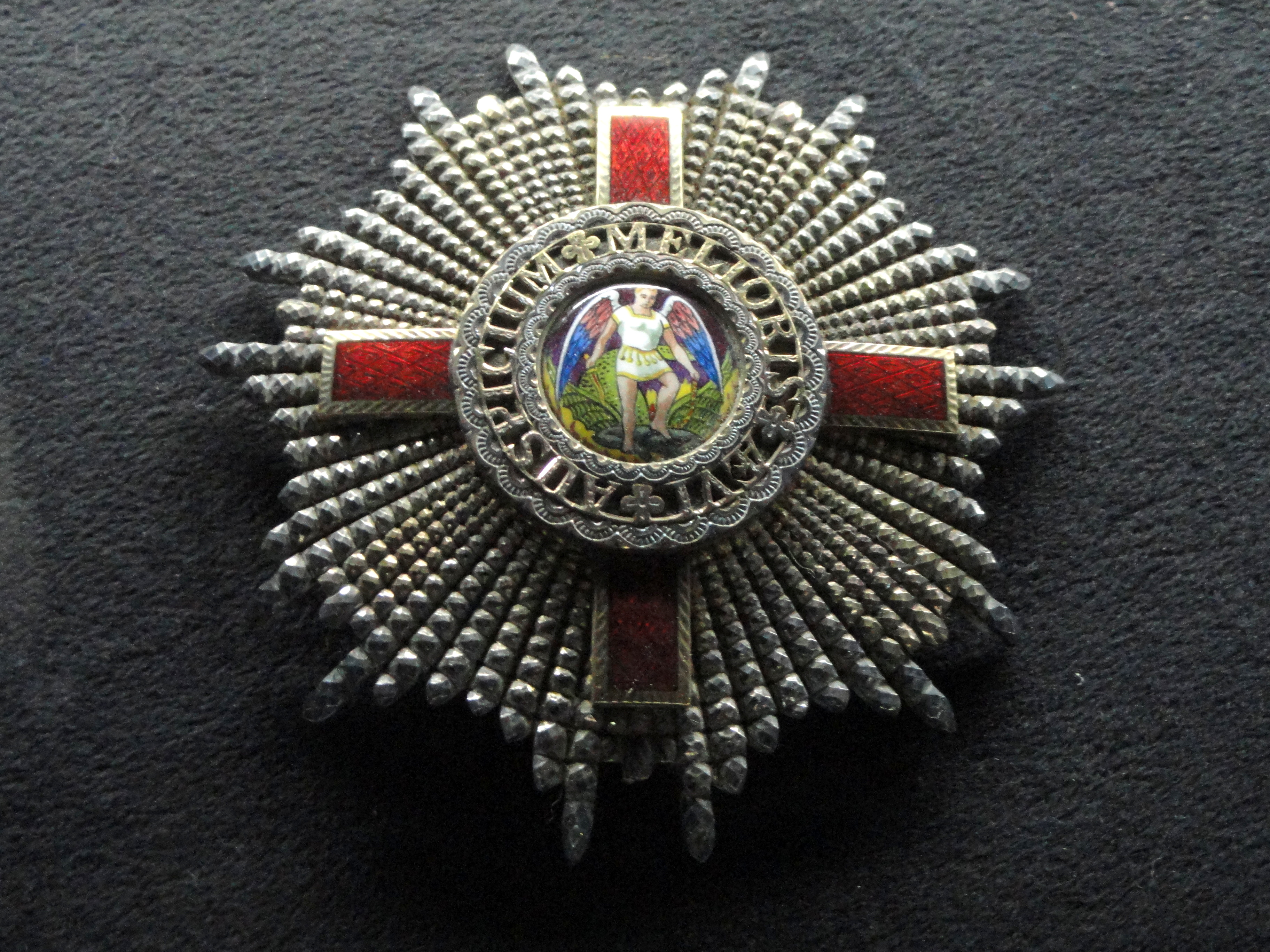 IExhibit in the Memorial JK, Brasília, Brazil.